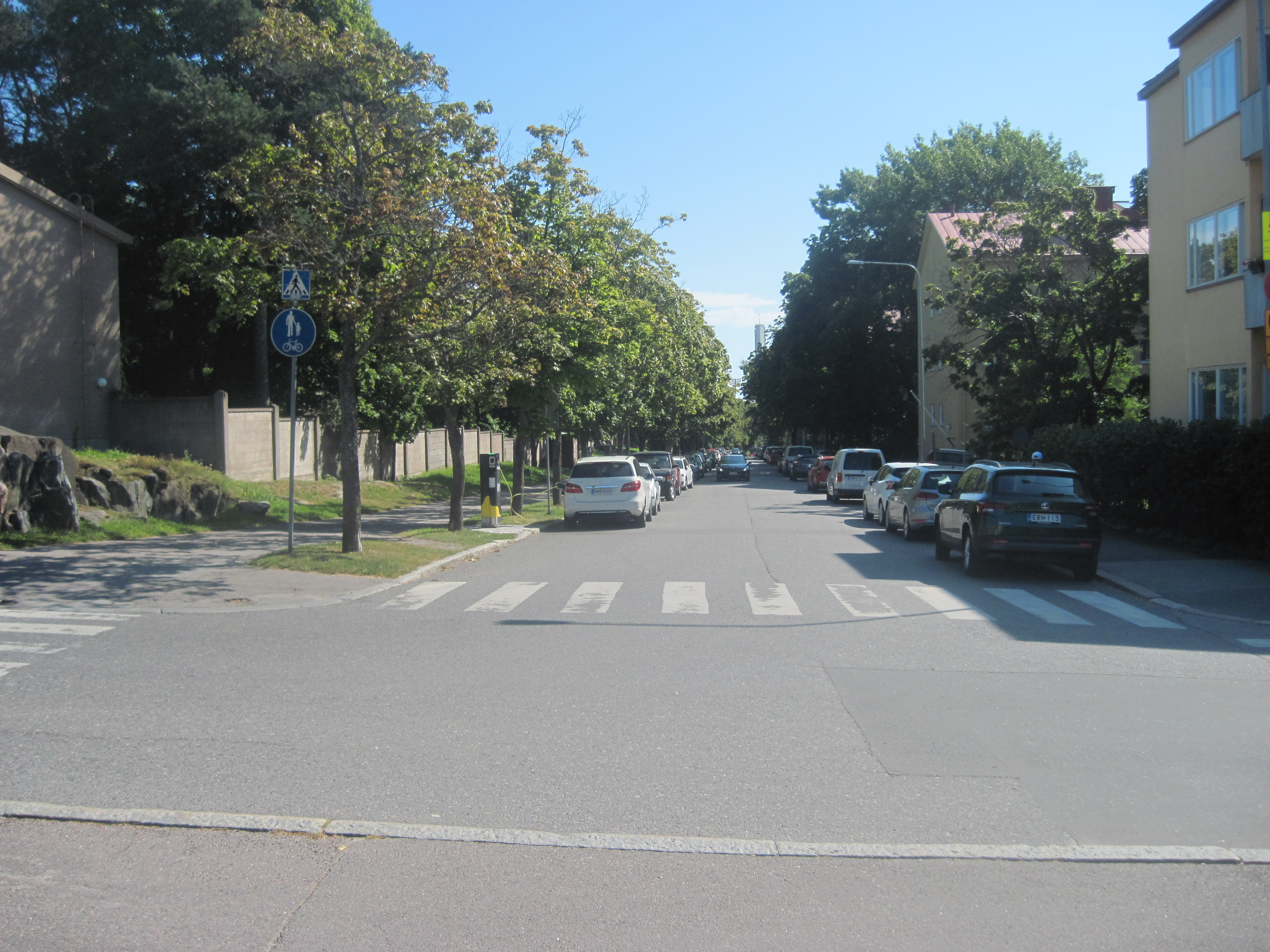 Urheilukatu in Helsinki, as seen from its Northern end